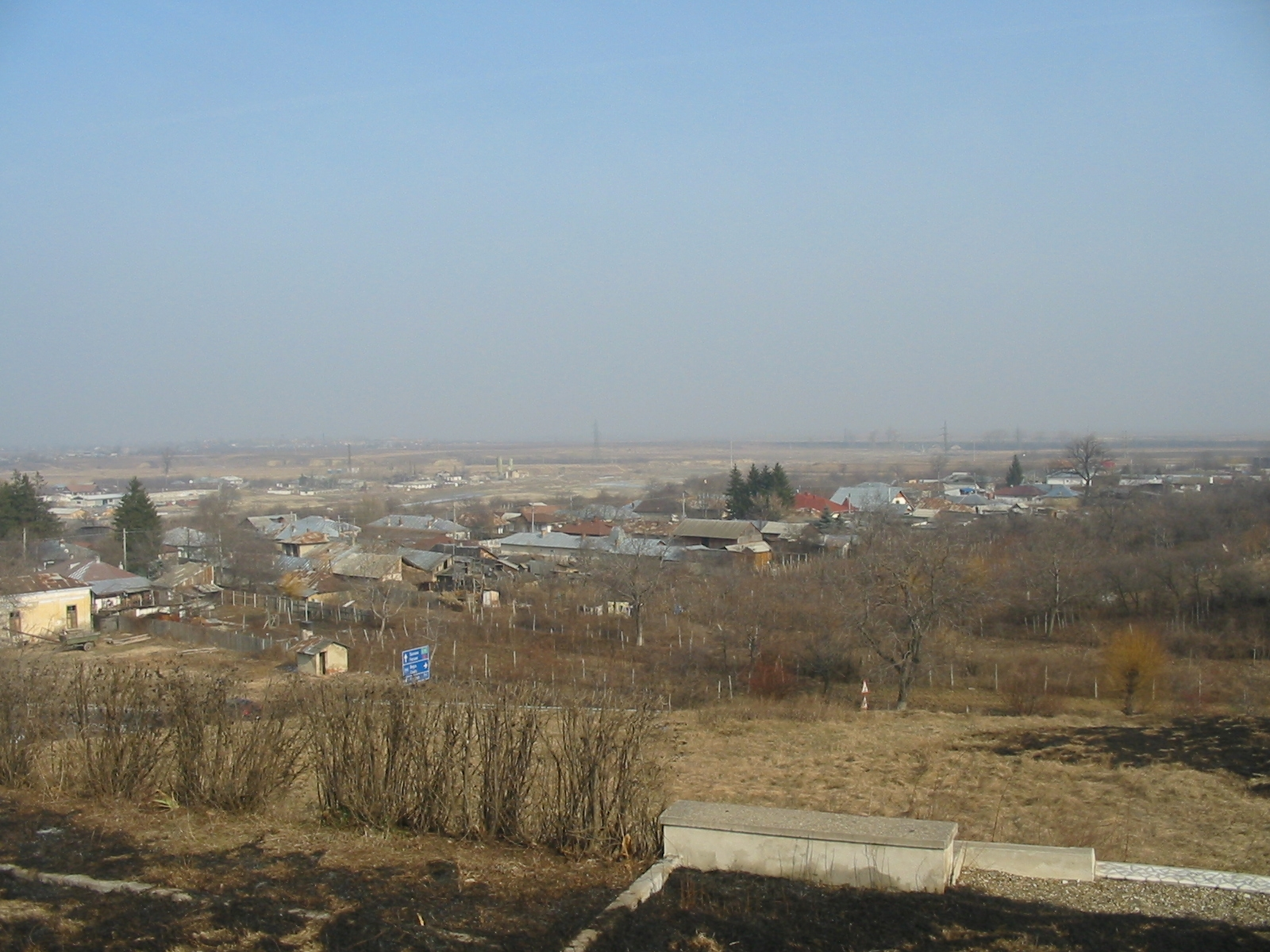 Suvorov monument over the Ramna river, The Suvorov monument was first placed near the river in the far side of the image.